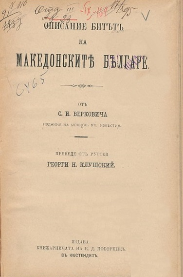 Cover of volume of „Описание битът на македонските българи“.